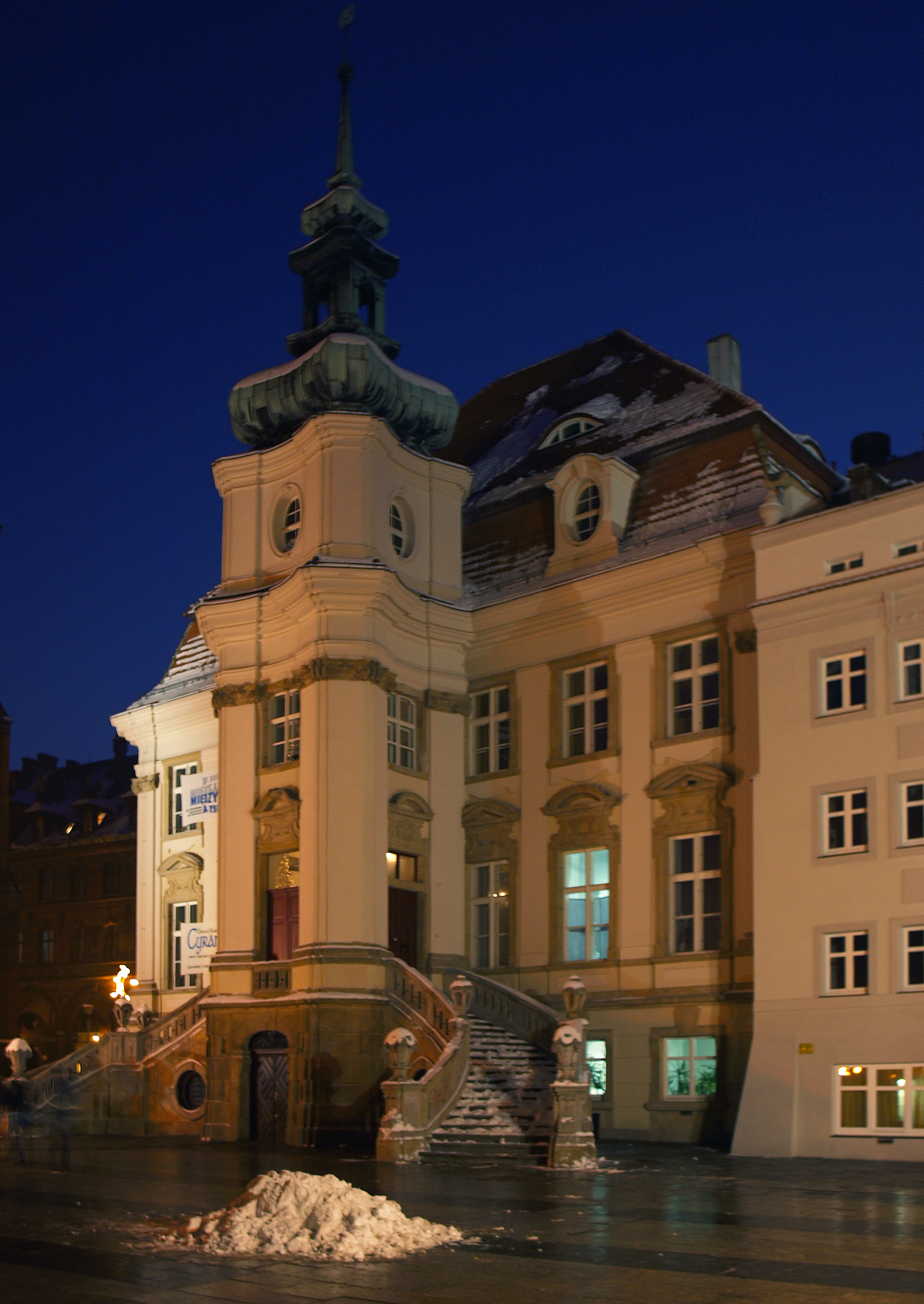 Legnica. Old city-hall